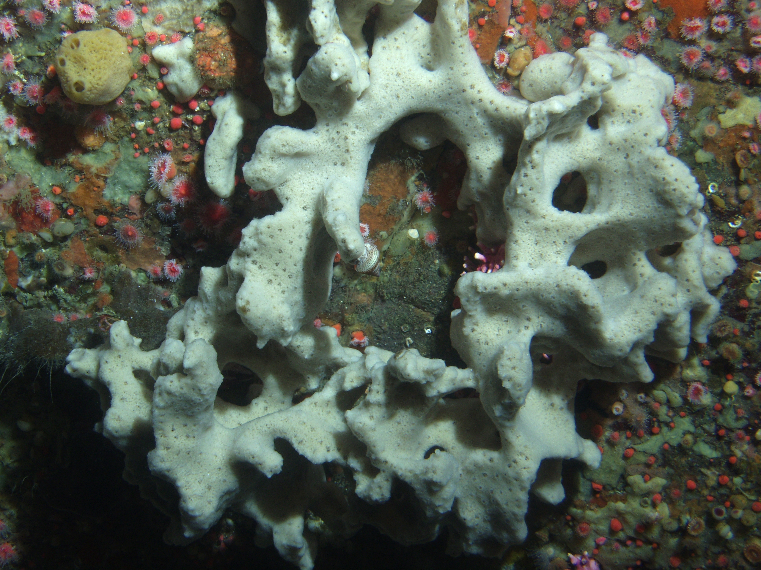 White Sponge (Ircinia campana) up close in reef habitat at 90 meters depth. Latitude 38 04 N., Longitude 123 28 W. California, Cordell Bank National Marine Sanctuary. 2004.